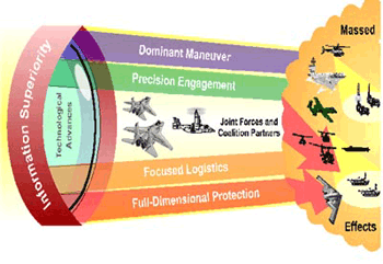 Graphical explanation of the four elements of Joint Vision 2020